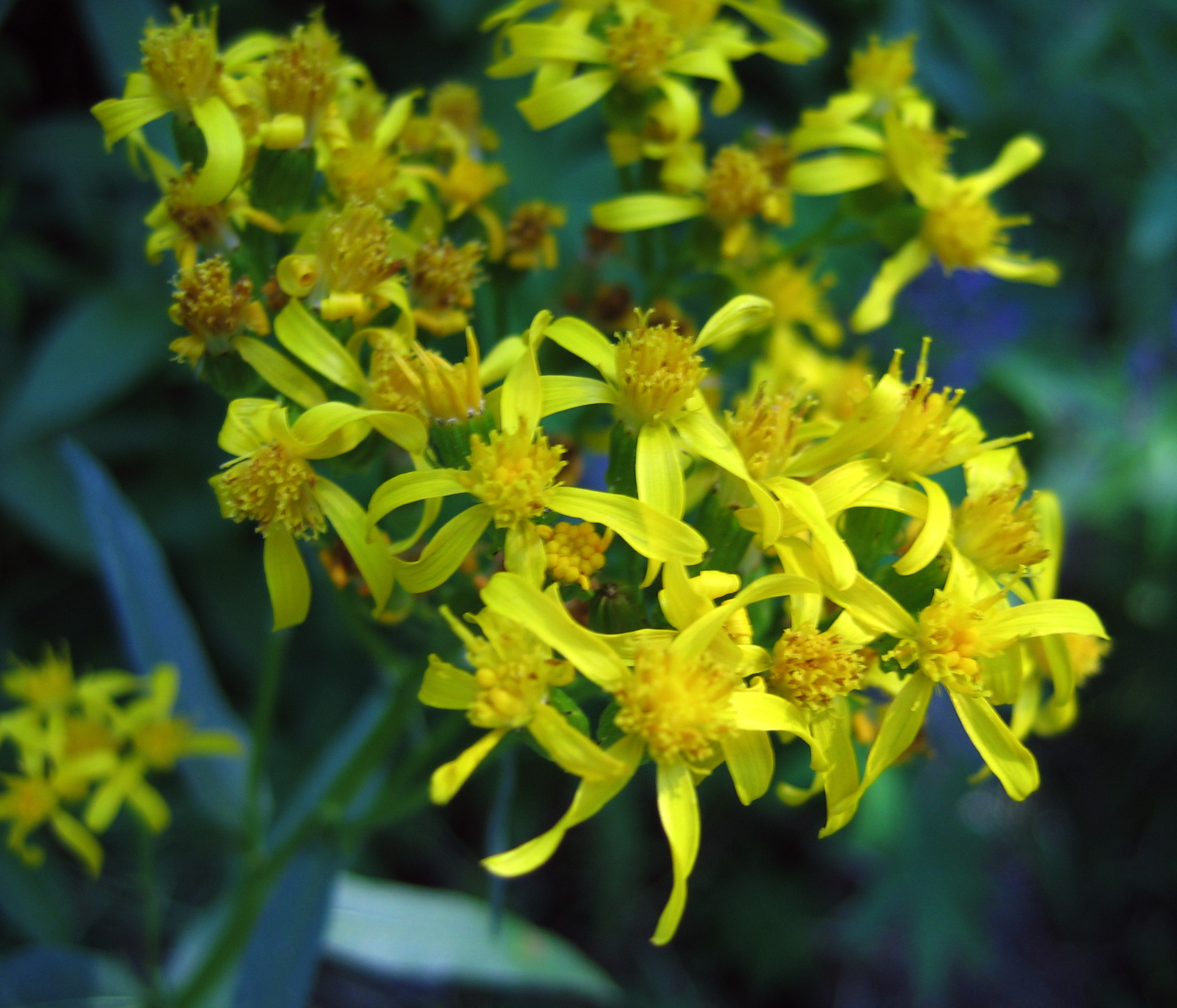 Senecio triangularis, Yosemite National Park. From a shady wooded area along the path to Taft Point. Shot of whole plant here, and photoshopped version here. (Senecio triangularis)